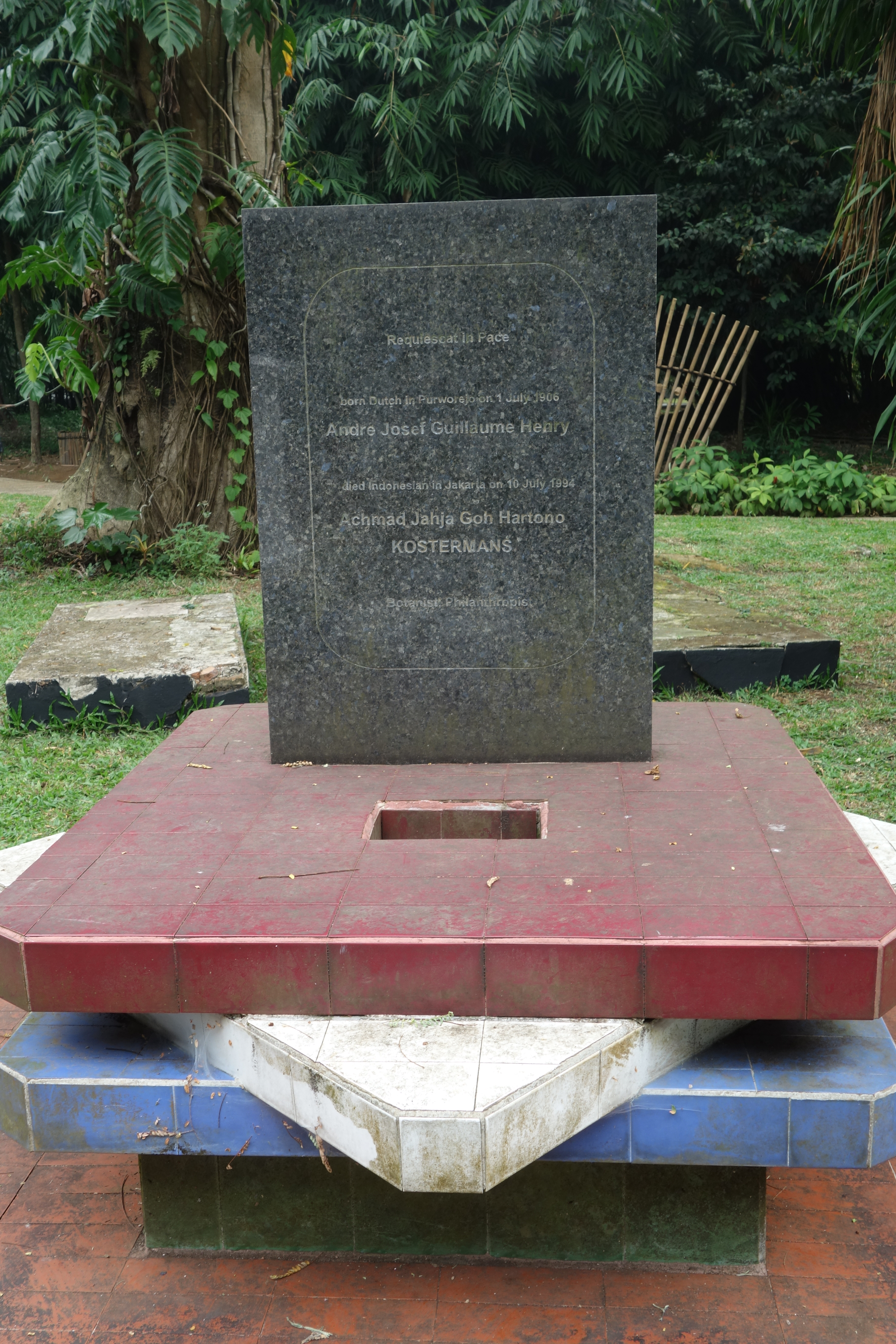 Old Dutch cemetery at Bogor Botanical Gardens (Java, Indonesia), 2018. Grave of André Kostermans. Text reads: Requiescat in pace / born Dutch in Purworejo on 1 July 1906 / Andre Josef Guillaume Henry / died Indonesian in Jakarta on 10 July 1994 / Achmad Jahja Goh Hartono Kostermans / Botanist Philanthropist. The stones are red-white-blue, the colours of the Dutch flag.